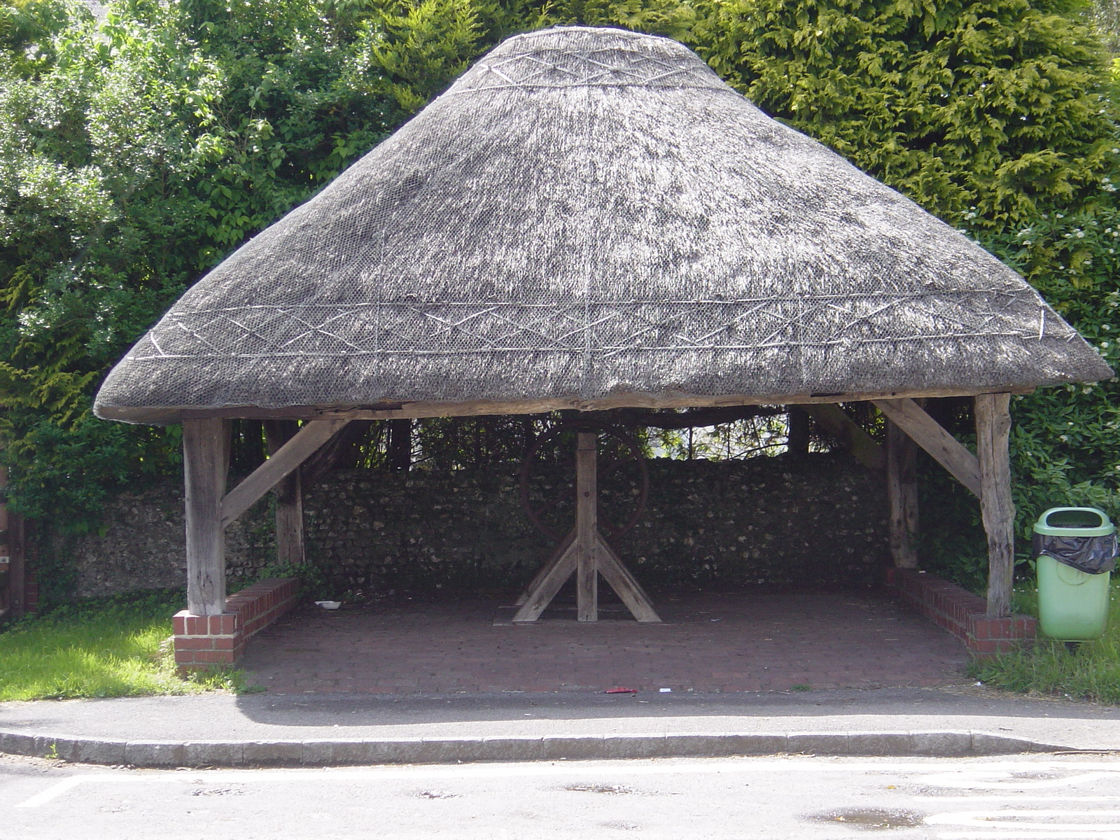 Clanfield Well, Clanfield, Hampshire, England